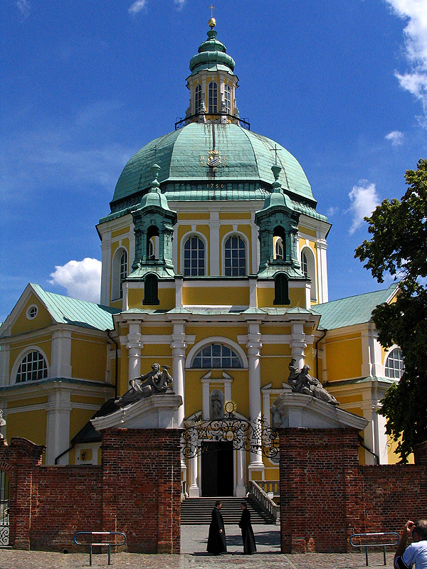 Monastery of Philip Neri's Oratory on the Holy Hill